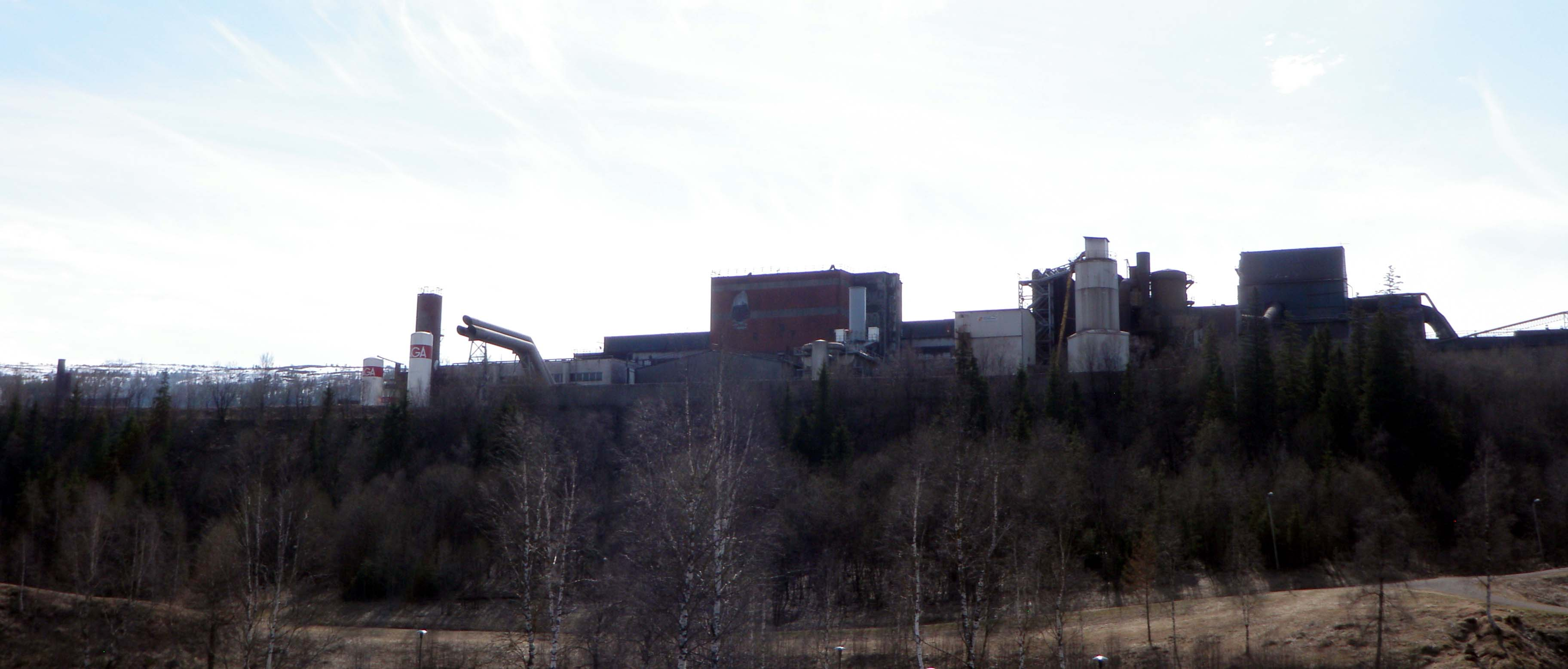 The factory complex Mo Industrial Park in Mo i Rana, Rana, Nordland, Norway. Photographed from a nearby park.